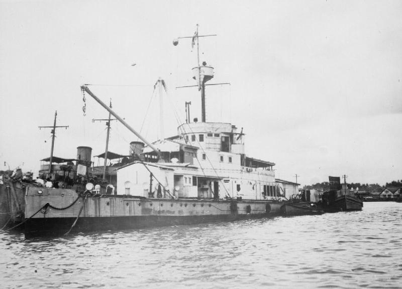 British Insect class gunboat HMS Tarantula moored at Trincomalee as a repair ship.